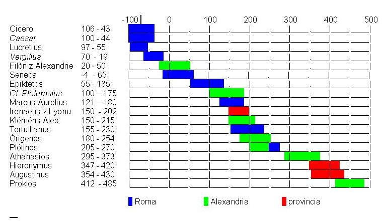 Chronology of Roman philosophers.)